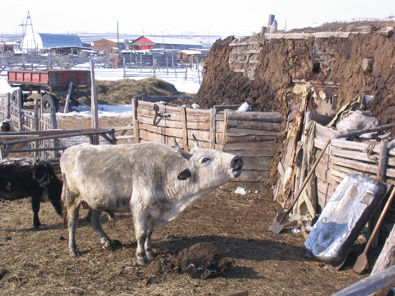 A Yakutian cattle bull, nervous due to the arrival of two new bull.